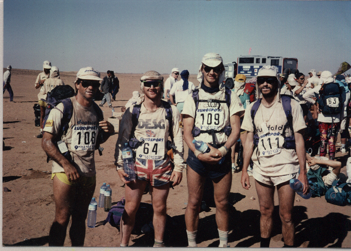 Photo of the first British Runners to complete the Marathon des Sables (Dr Mike Stroud OBE, Rene Nevola, Richard Cooper and Prof Mike Lean).